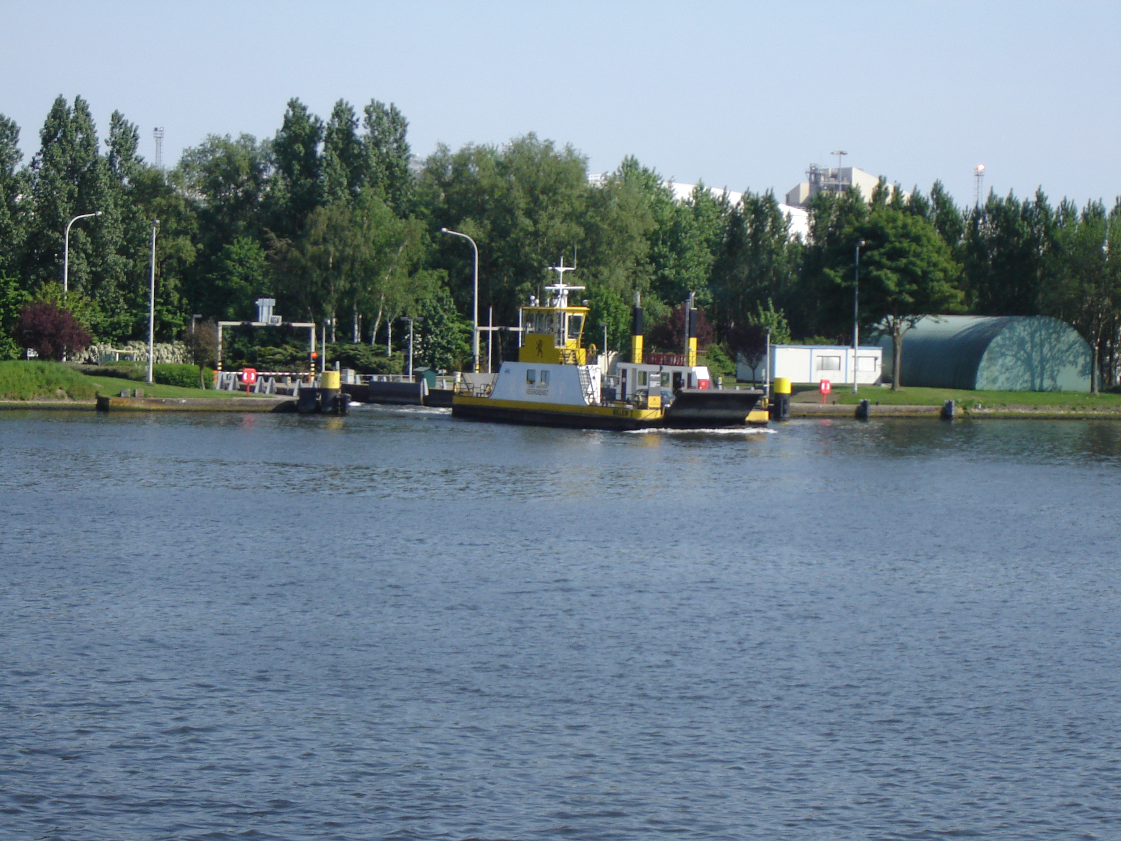 Ferry boat Willem I for the Terdonk ferry service across the Gent-Terneuzen canal. Seen from the canal bank on the Doornzele (Evergem) side. Gent, East Flanders, Belgium.